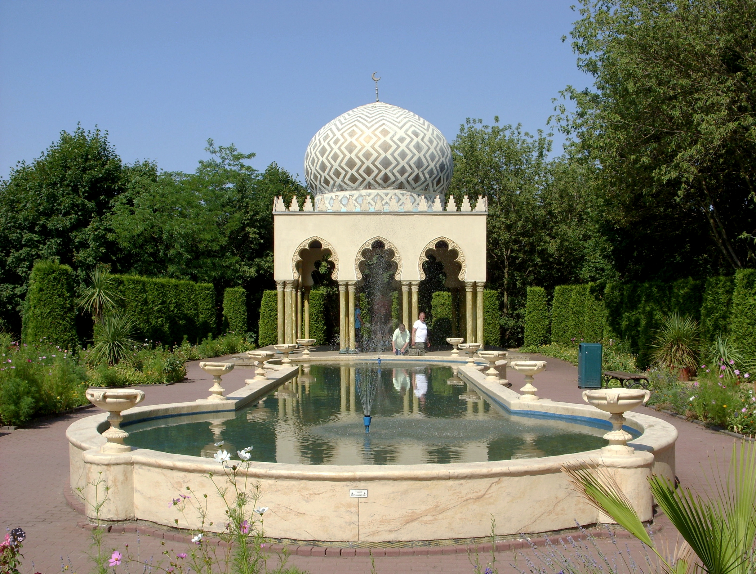 The film set of Der kleine Muck in the Filmpark (movie park) of Babelsberg, Potsdam, Brandenburg, Germany.